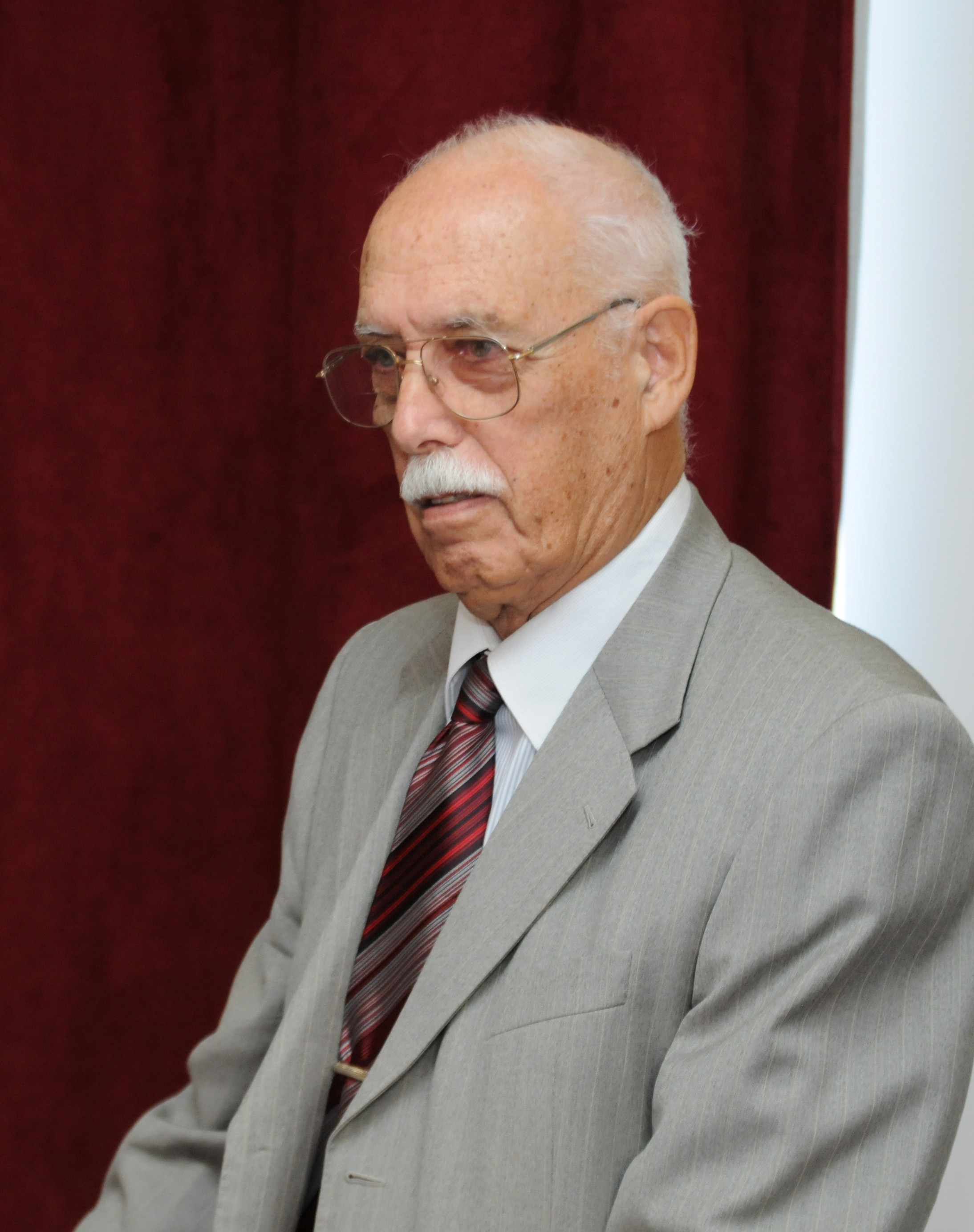 Portrait of András Róna-Tas